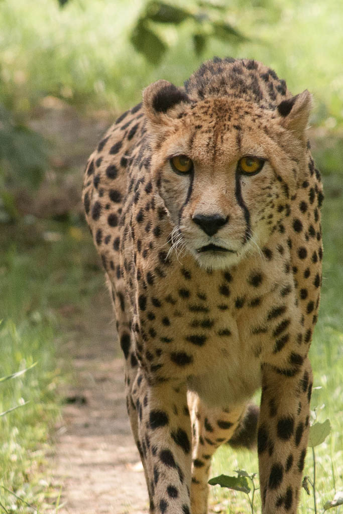 A Cheetah at Warsaw Zoo, Poland.